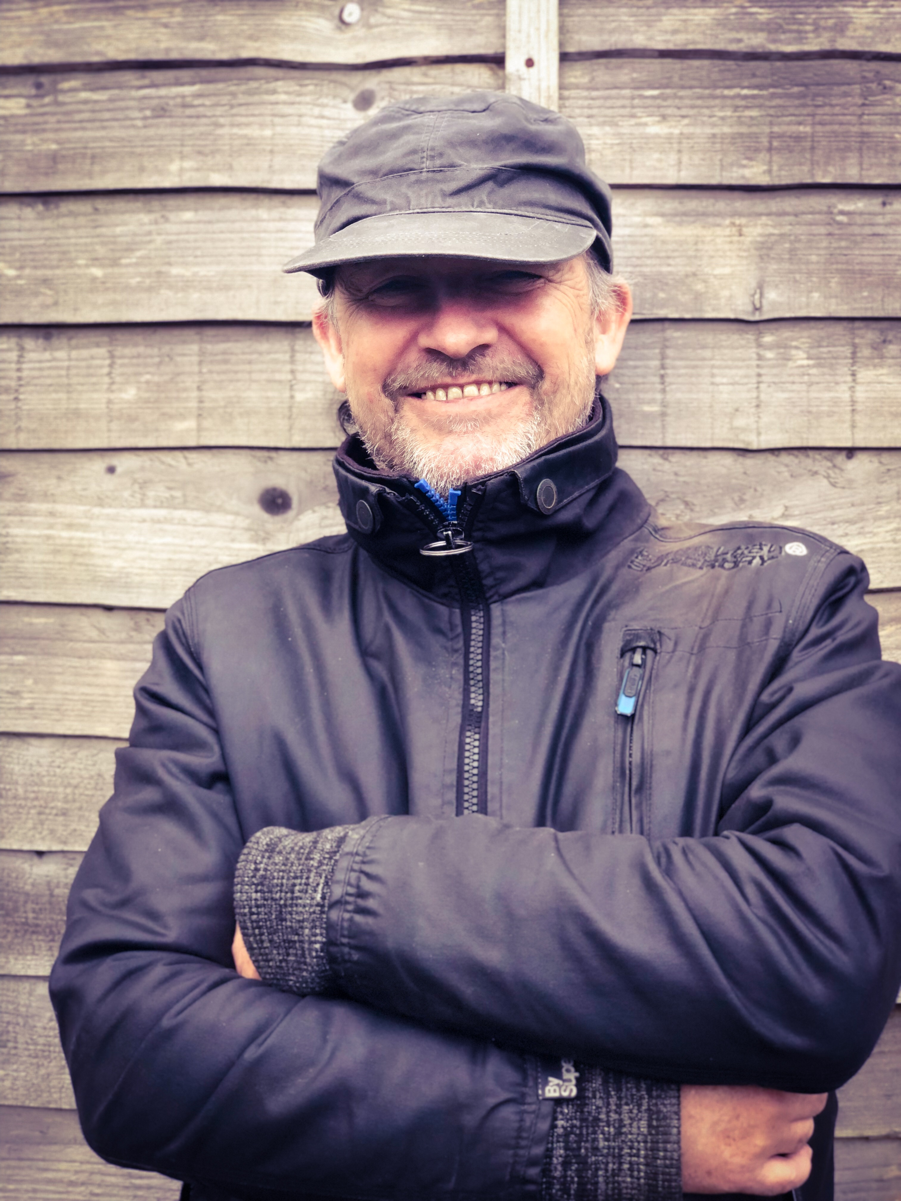 Owen Paul by the fence